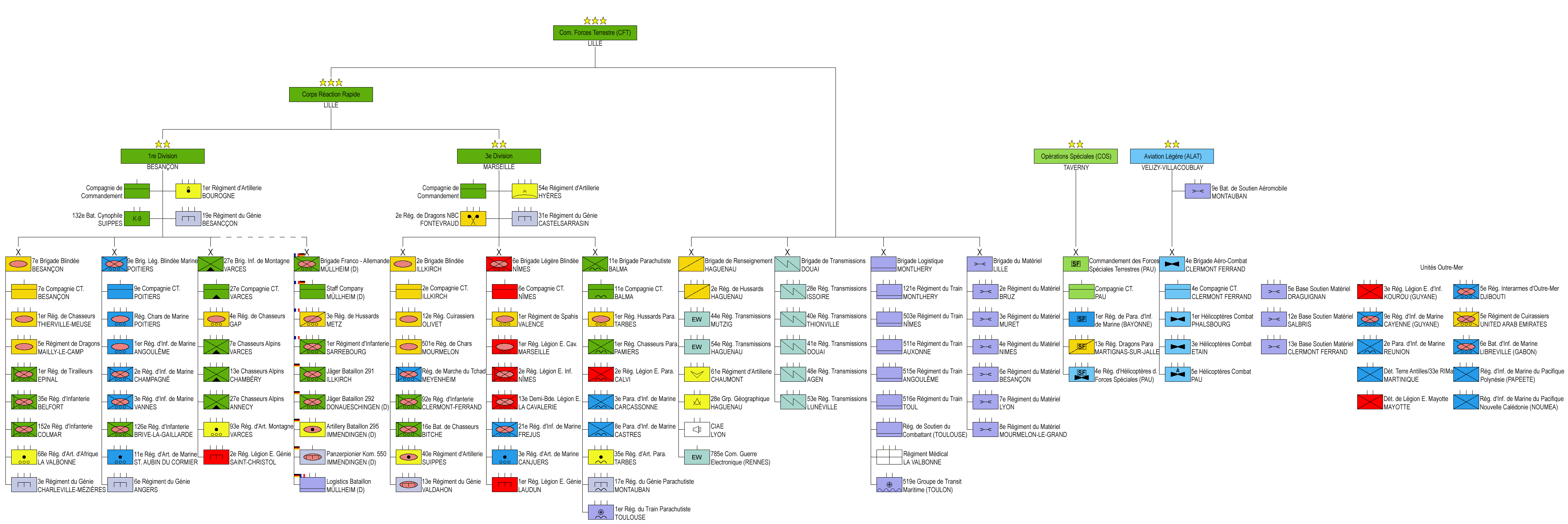 Structure of the French Armée de Terre 2016